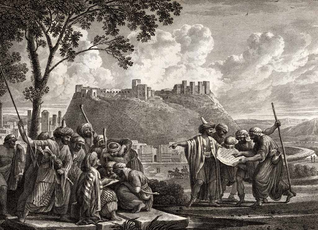 Romantic Illustration of Emesa, today's Homs/Syria by the great artist Louis Francois Cassas [1756-1827 ] during his journey into the Ottoman Empire 1784-1786. The artist is shown sketching the famous citadel of Emesa, surrounded by his guards and the inquisitive locals.